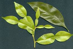 "Lime and mandarine leaves". Ichang papeda and clementine leaves (see). The leaf labelled Ichang papeda also looks like a leaf of Citrus hysterix, which is called a lime.